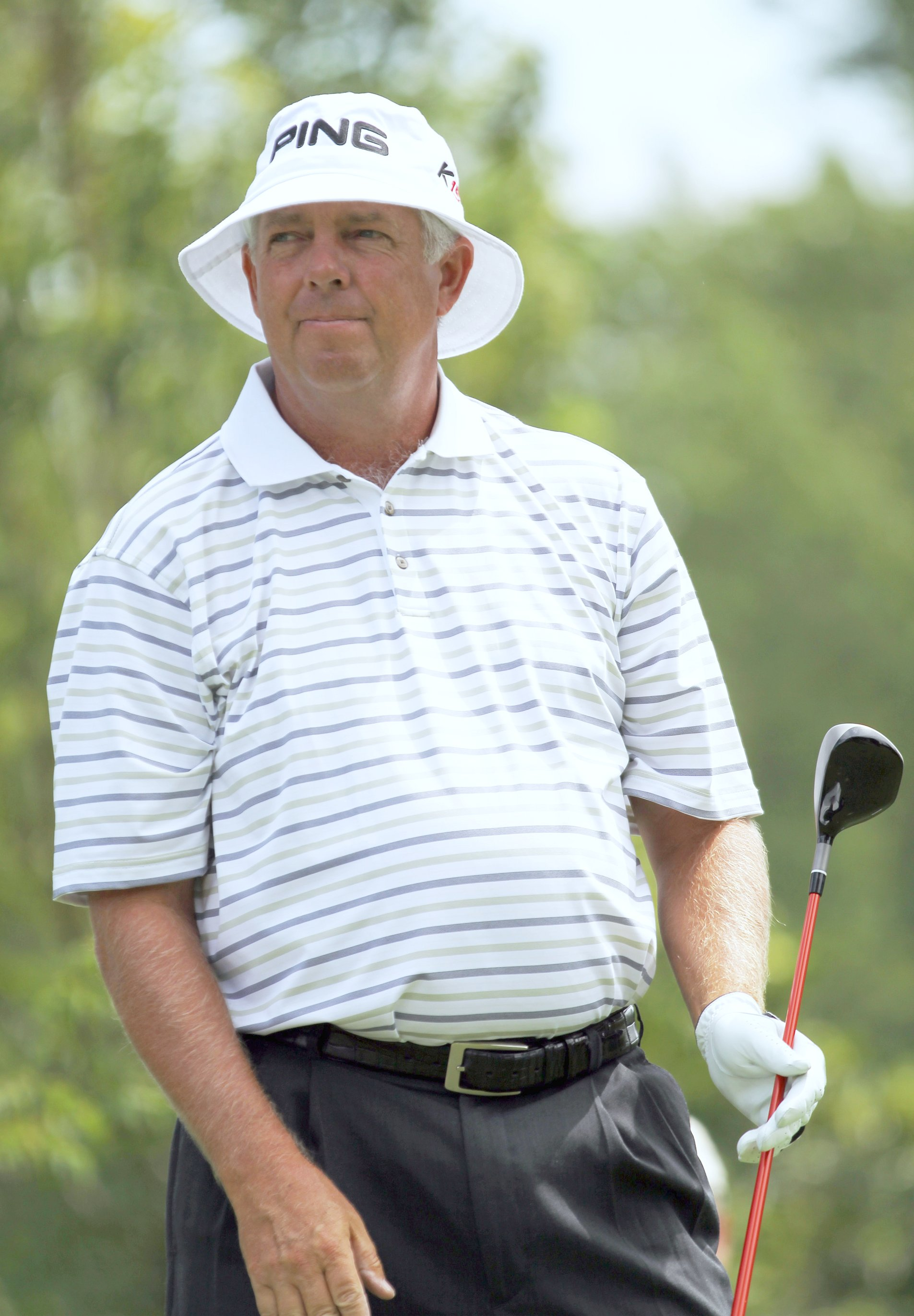 U.S. Open Golf Practice Round June 13, 2011